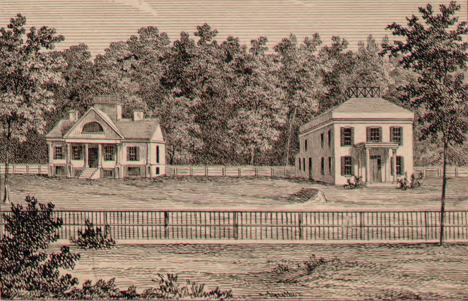 Girl's boarding school